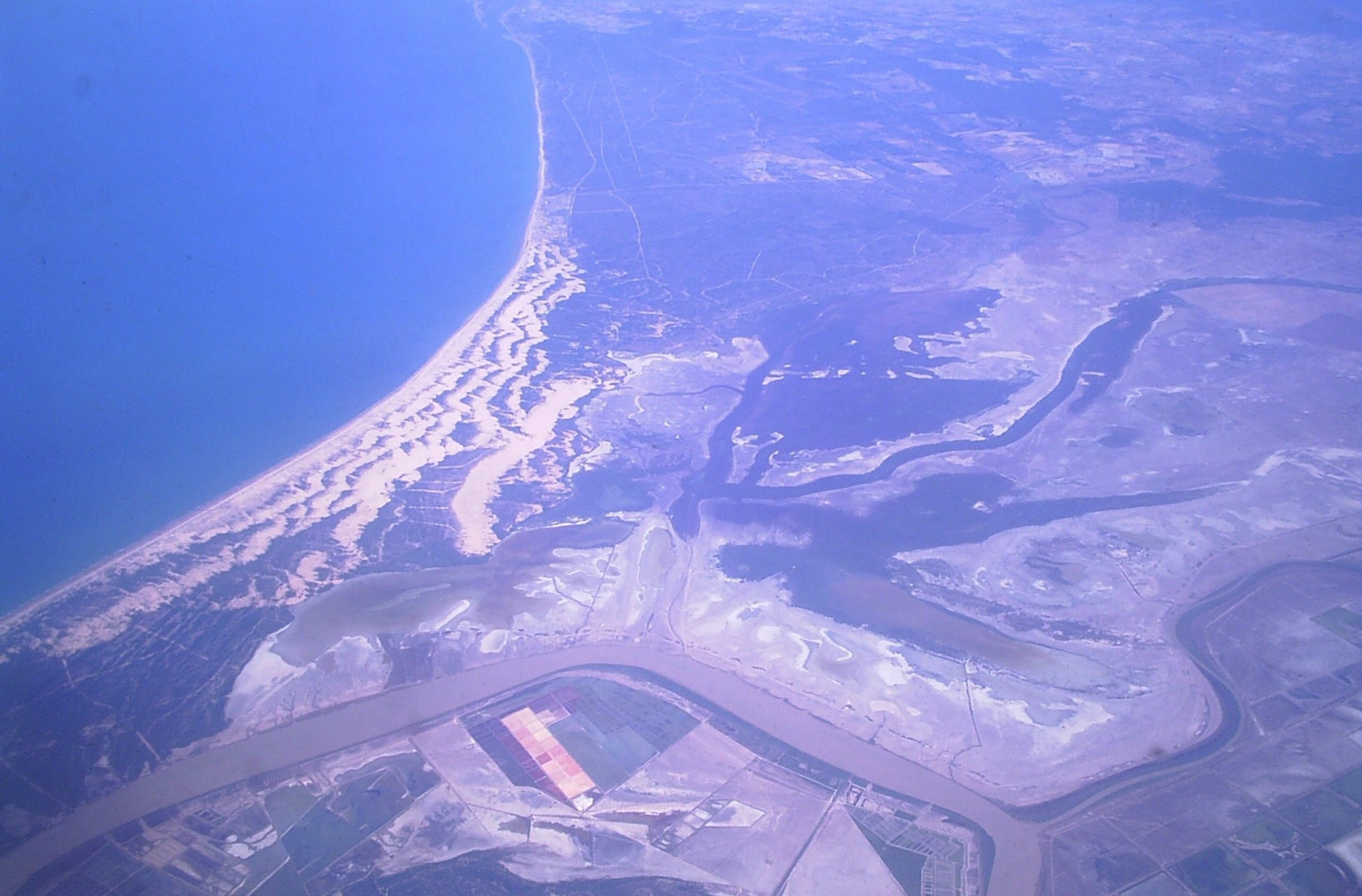 Aerial view of Doñana National Park, Huelva, Andalusia, Spain.